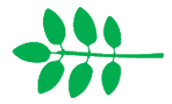 Leaf morphology odd pinnate (extraction of Leaf_morphology_no_title.png)